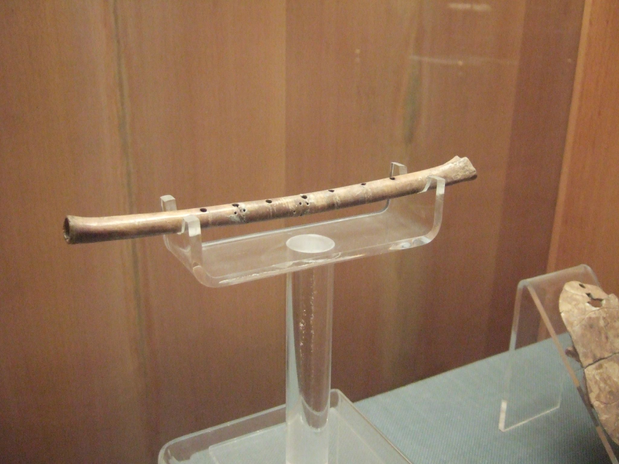 Neolithic bone flute (Henan Provincial Museum)